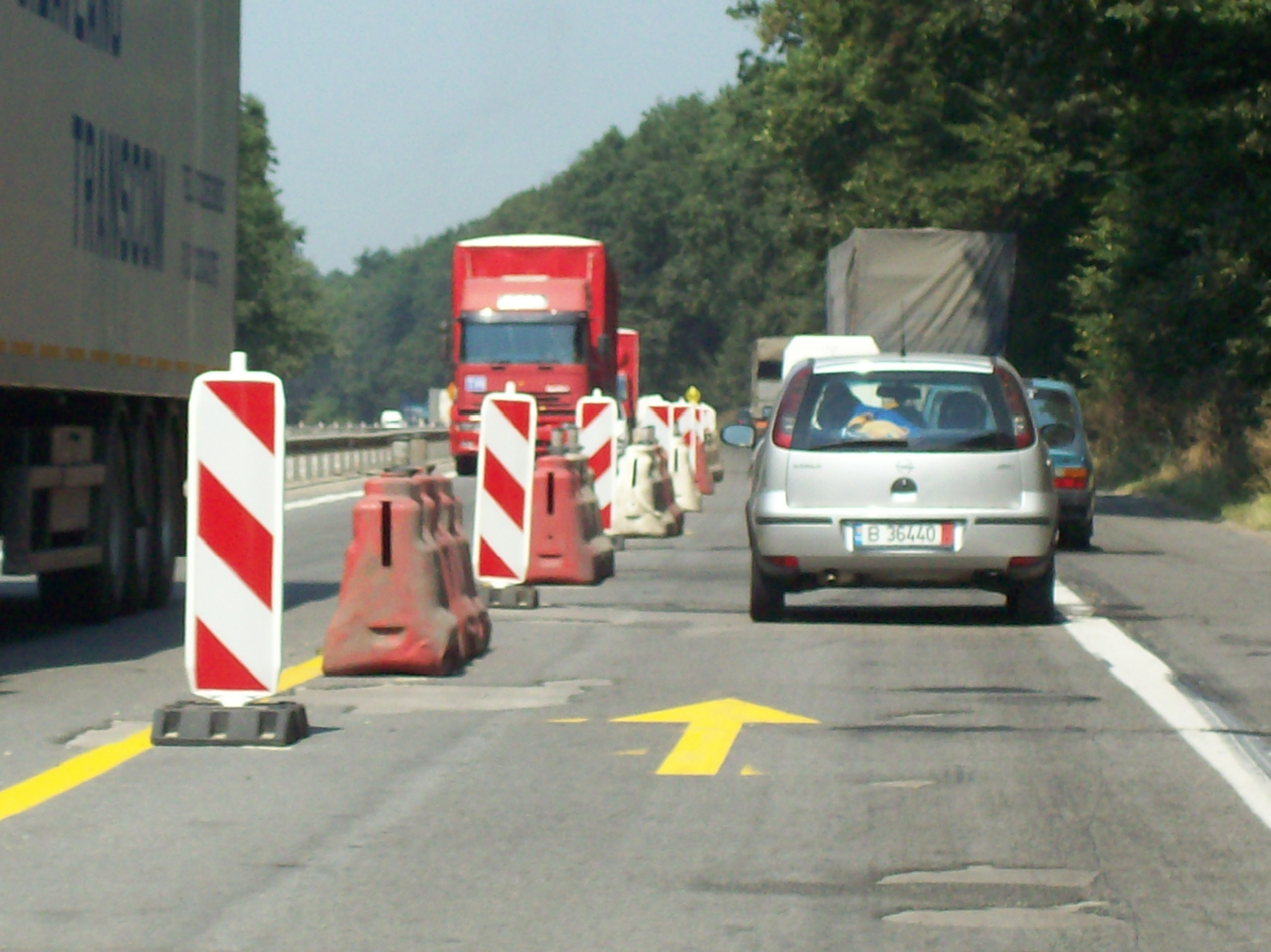 Contraflow in operation during roadworks on the A1 in Romania